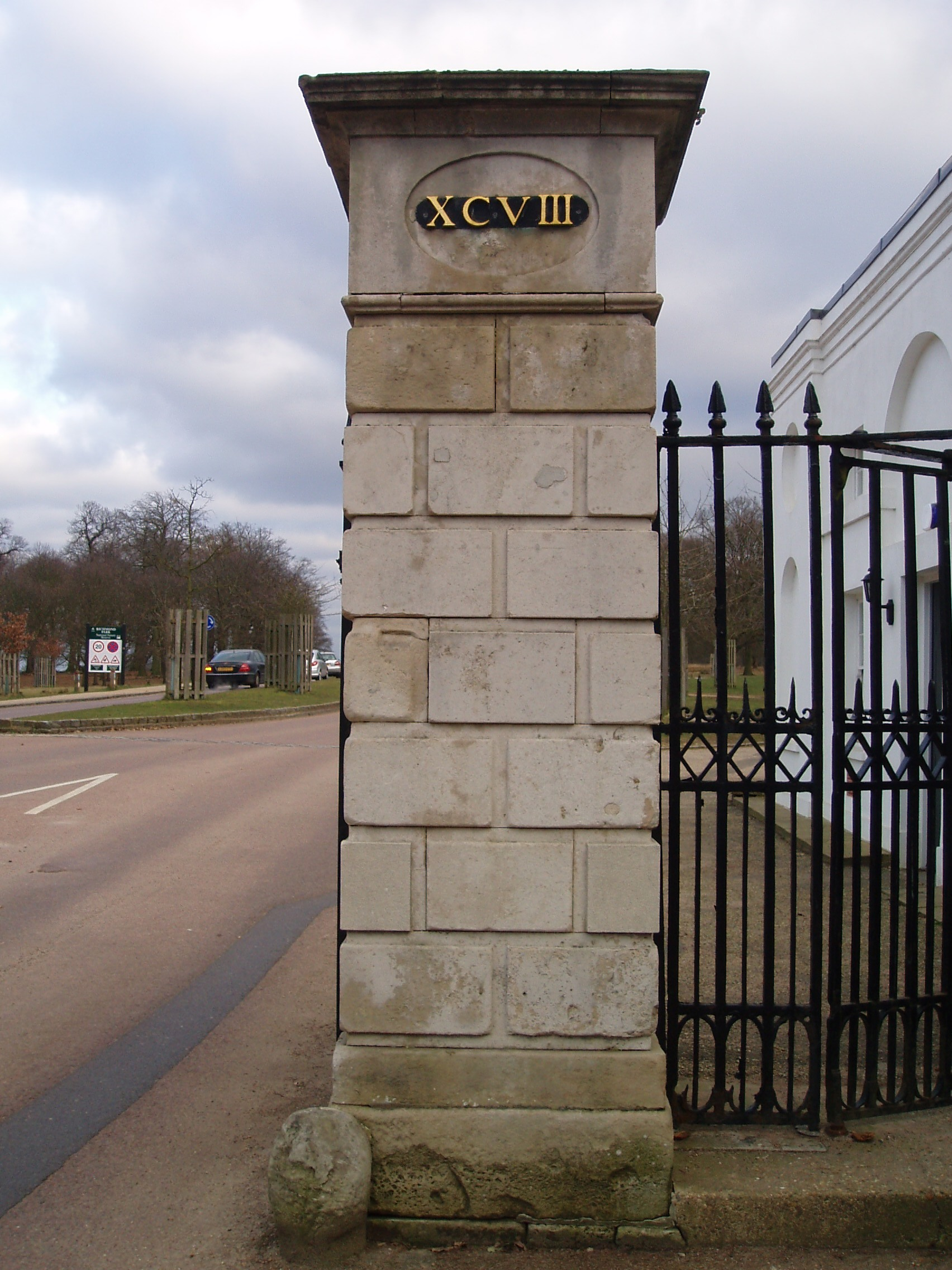 Richmond gates of Richmond Park, Richmond, London, UK. 11/03/2010.